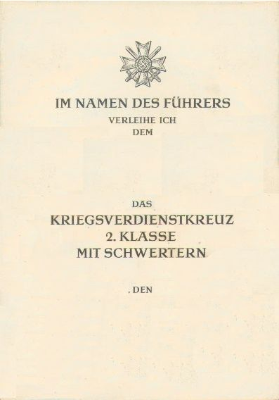 Diploma War Merit Cross 2nd Class with Swords, unused